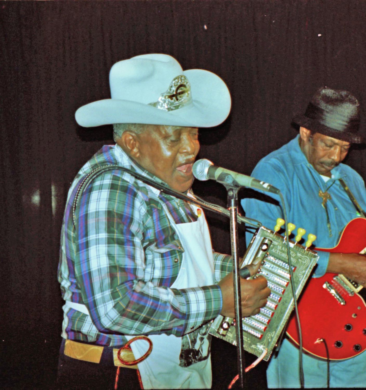 Boozoo Chavis at Mid City Rock N' Bowl